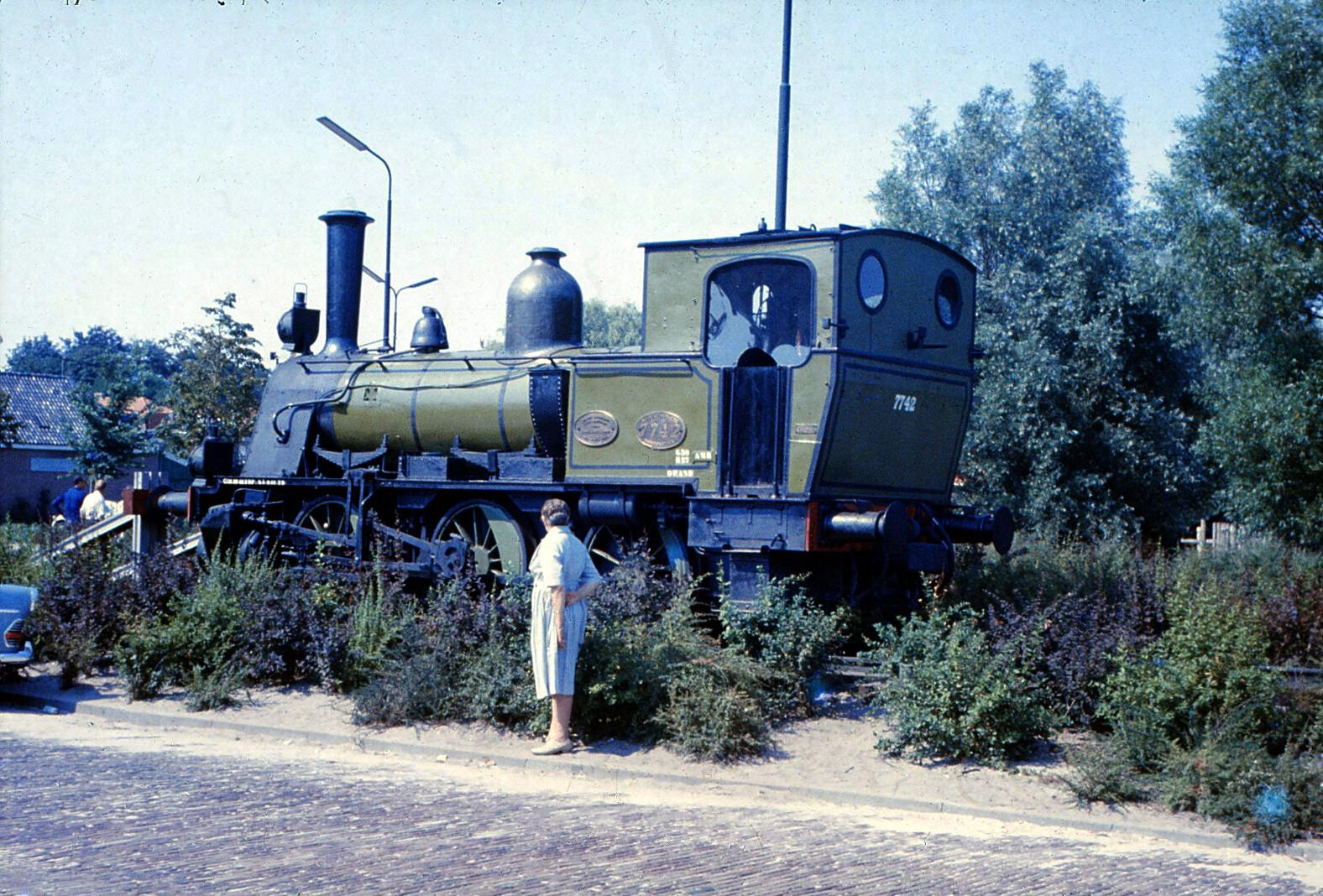 Bello no 1046 later no 7742 build 1914 by Berliner Machinebau A.G. vormals L. Schwartzkopf in use til 1955 here seen as monument in the early 1960s at Bergen not long after it was placed there . in 1978 it was moved for restoration which was completed to full working order in 1985.